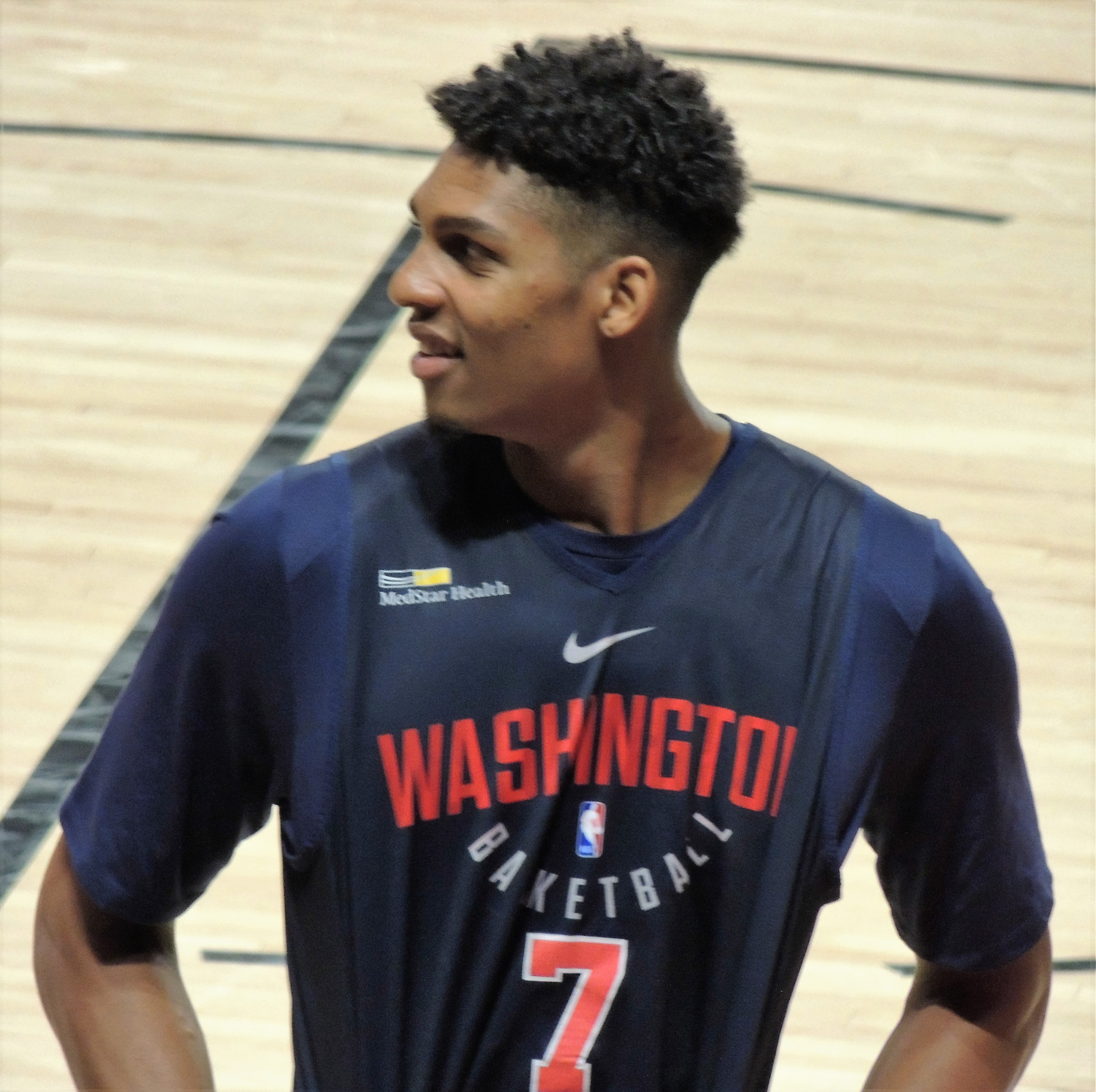 Devin Robinson during 2017 Washington Wizards training camp